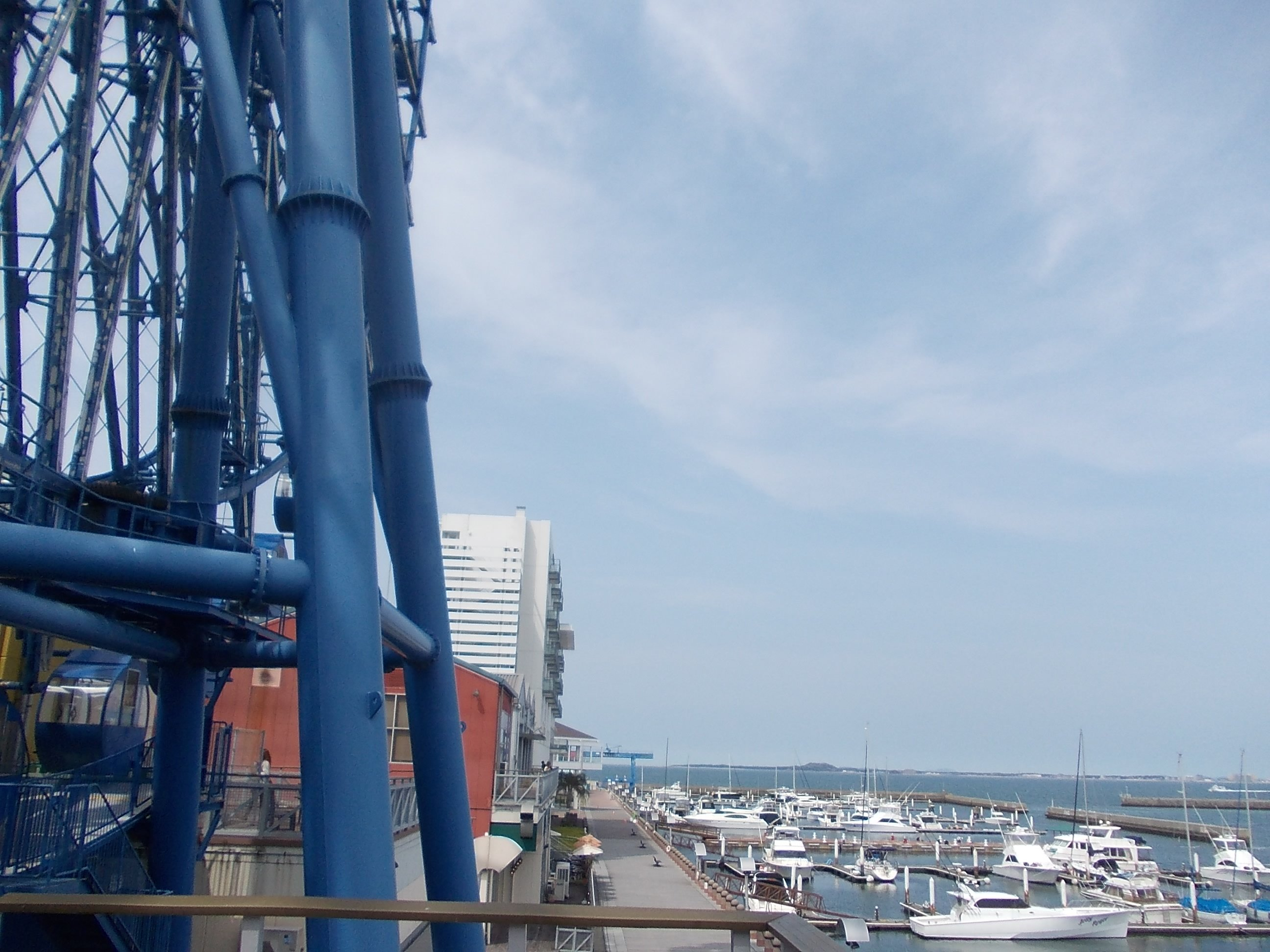 West Fukuoka Marina as seen from Marinoa City Fukuoka, Nishi-ku, Fukuoka, Japan.